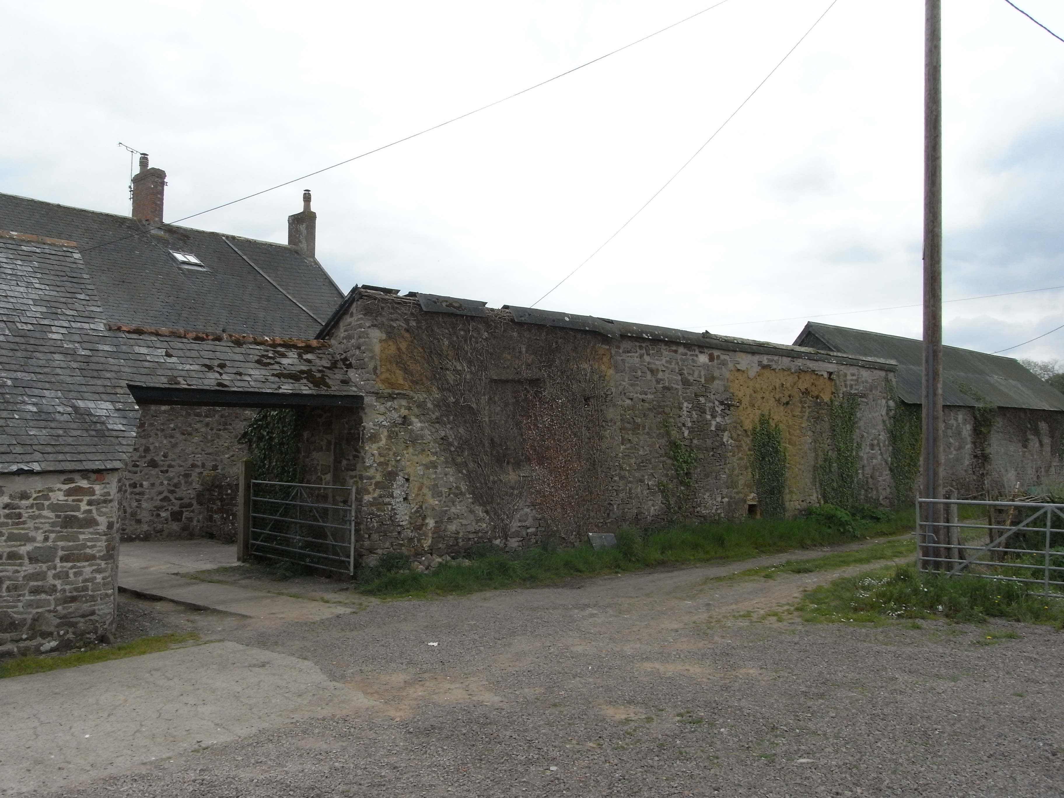 Surviving south wall of Umberleigh Chapel, Atherington, Devon, founded by Joan Champernown circa 1275. Now a redundant farm building next to Umberleigh House.